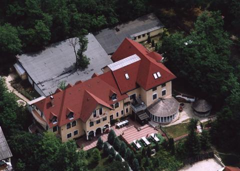 Domony, Hungary, aerial photography